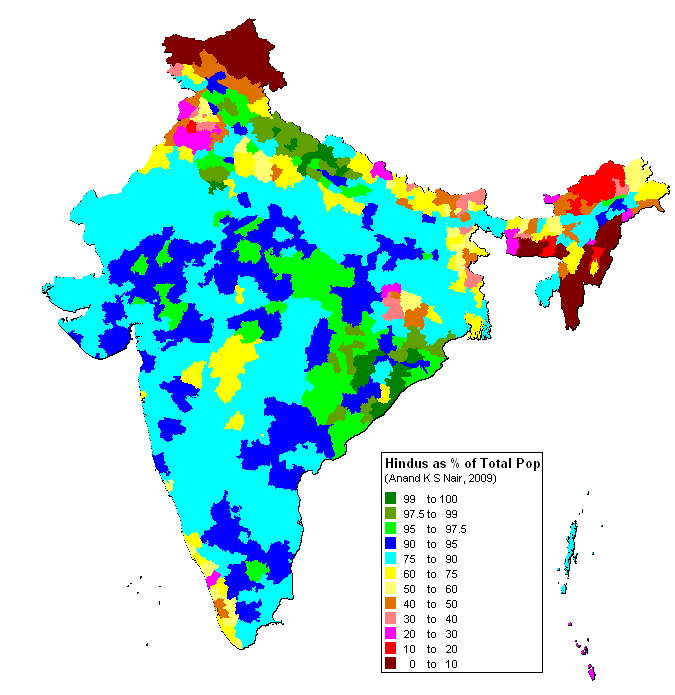 Thematic map showing the distribution of Hindus in India (Districtwise), in 2001.